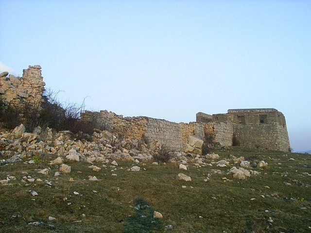 The town of Kalinovnik, Republika srpska, BiH